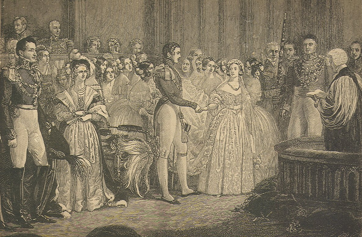 Marriage of Queen Victoria & Prince Albert, 10 February, 1840. Engraving scanned from 19th century book